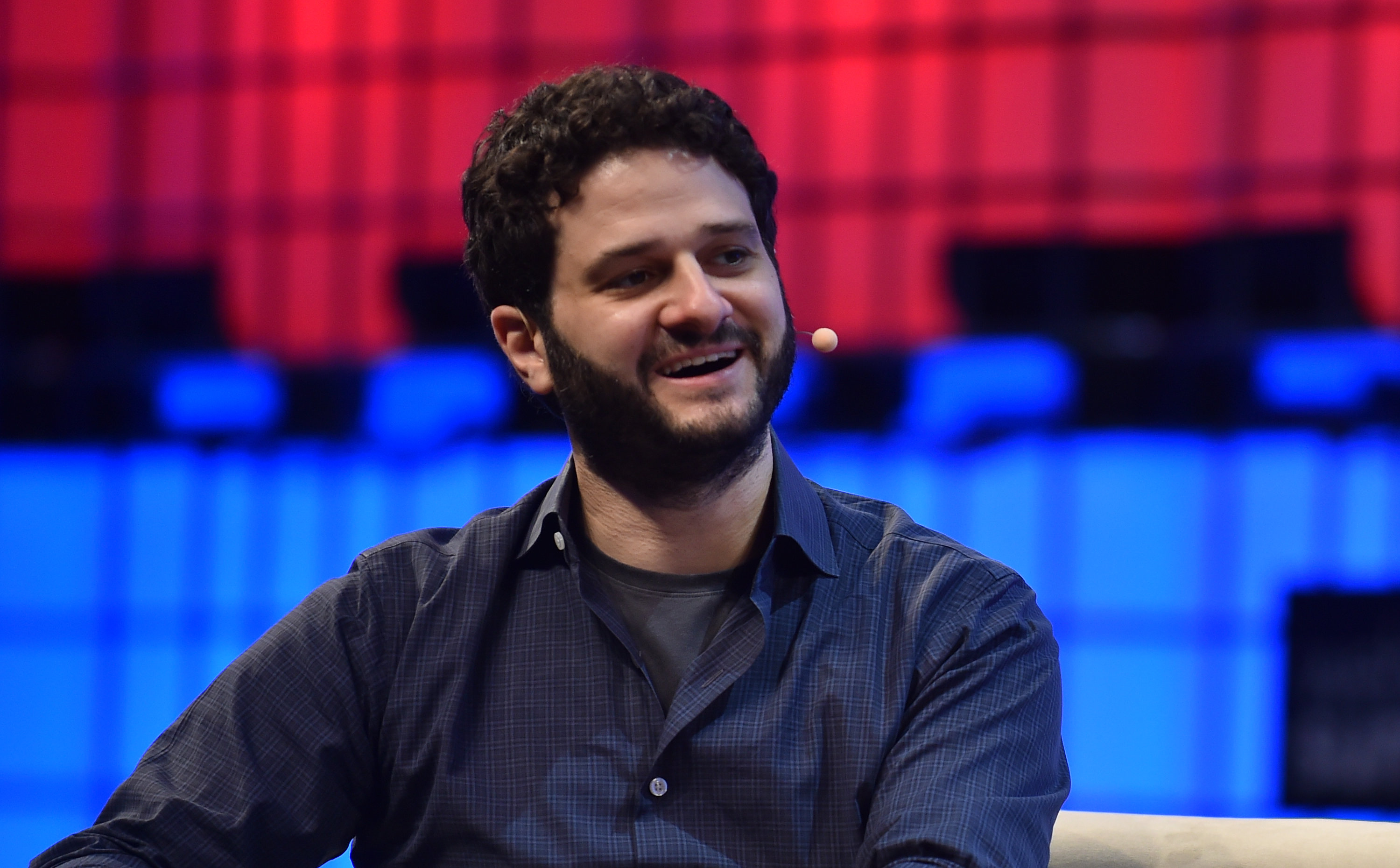 8 November 2017; Dustin Moskovitz, Co-Founder & CEO, Asana, on Centre Stage during day two of Web Summit 2017 at Altice Arena in Lisbon. Photo by David Fitzgerald/Web Summit via Sportsfile